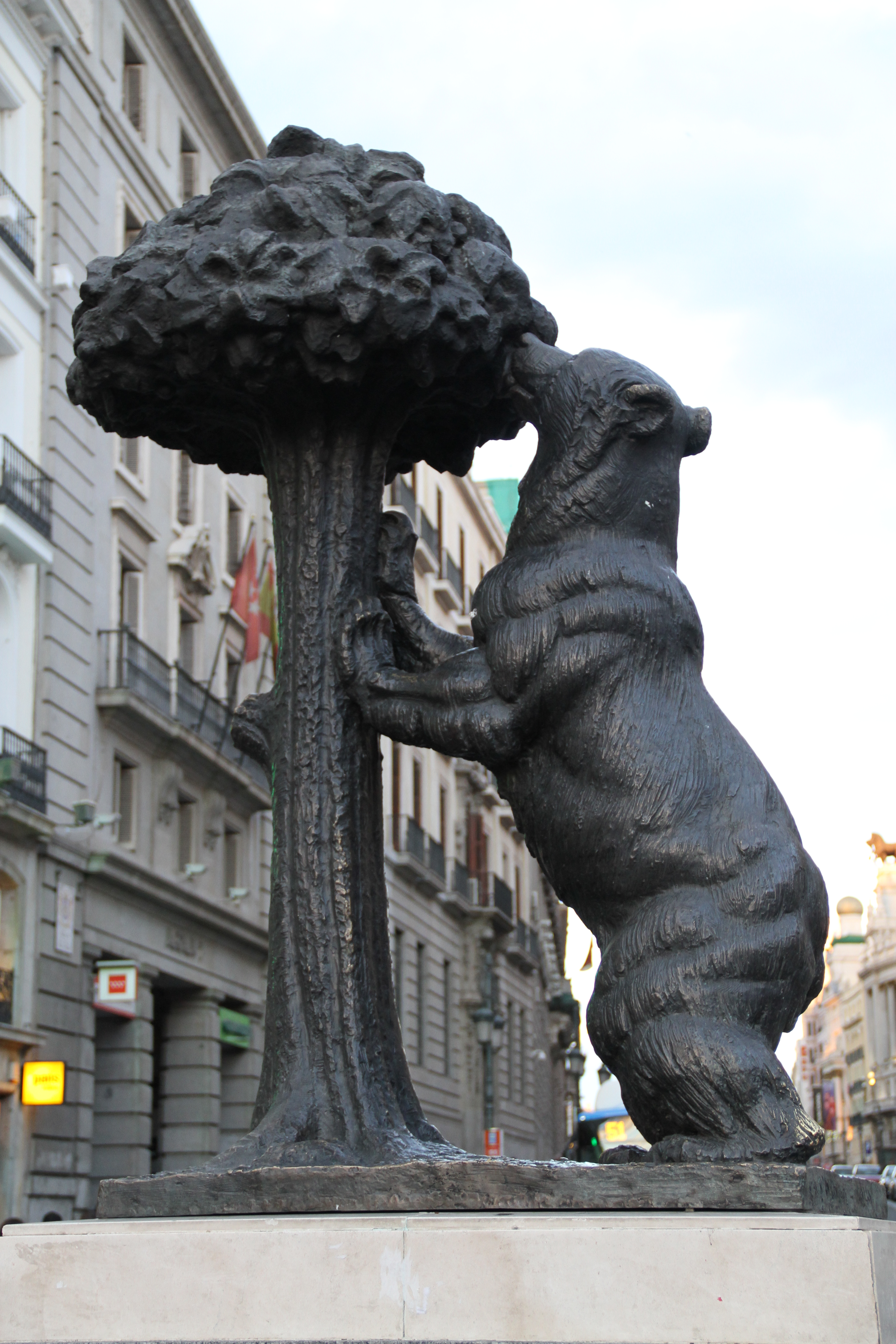 Sculpture "The Bear and the Strawberry Tree" by Antonio Navarro